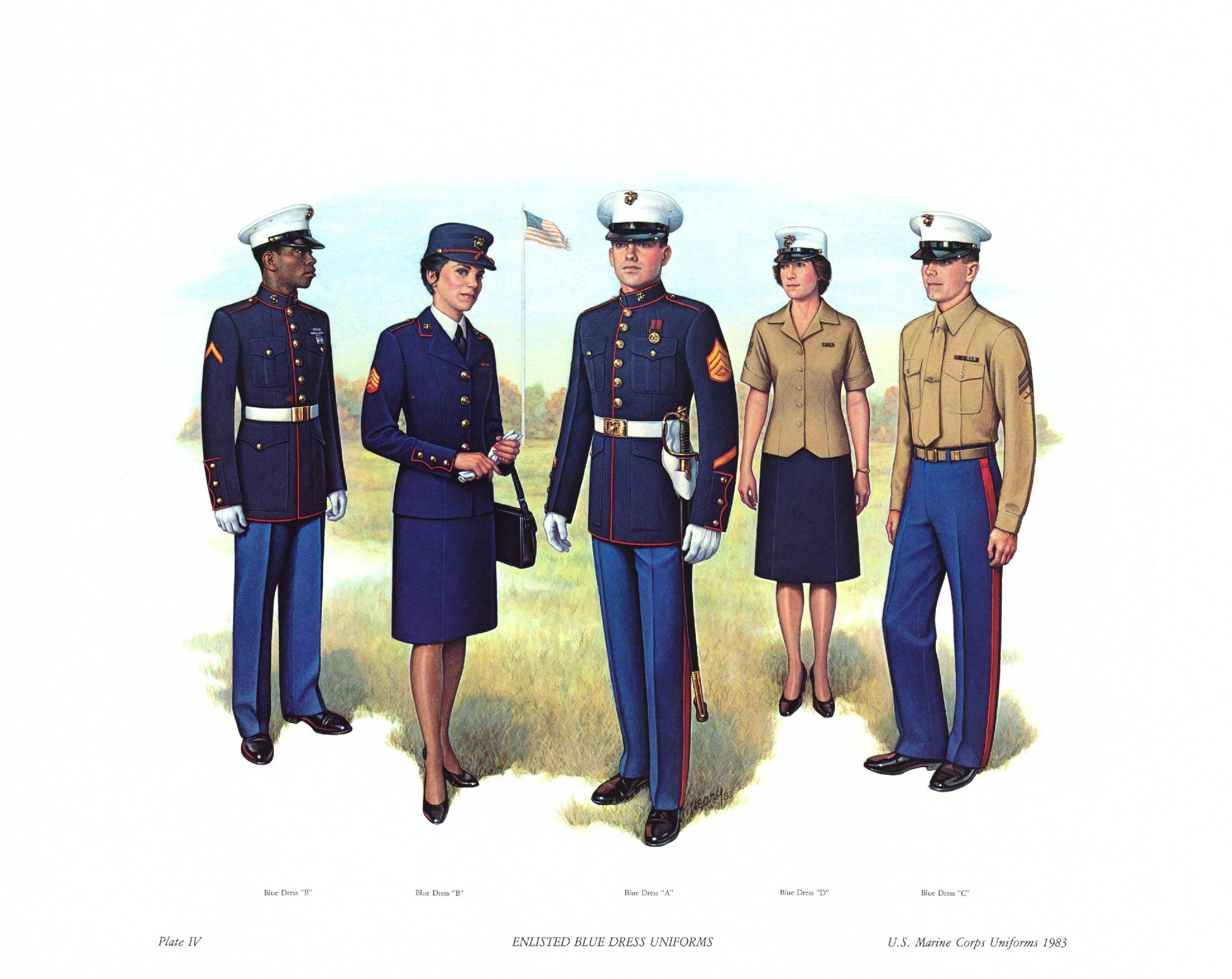 From left to right: Blue Dress "B" (Male), Blue Dress "B" (Female), Blue Dress "A", Blue Dress "D", Blue Dress "C" Summary Marine Enlisted Dress Uniform Source: [1] and [2]